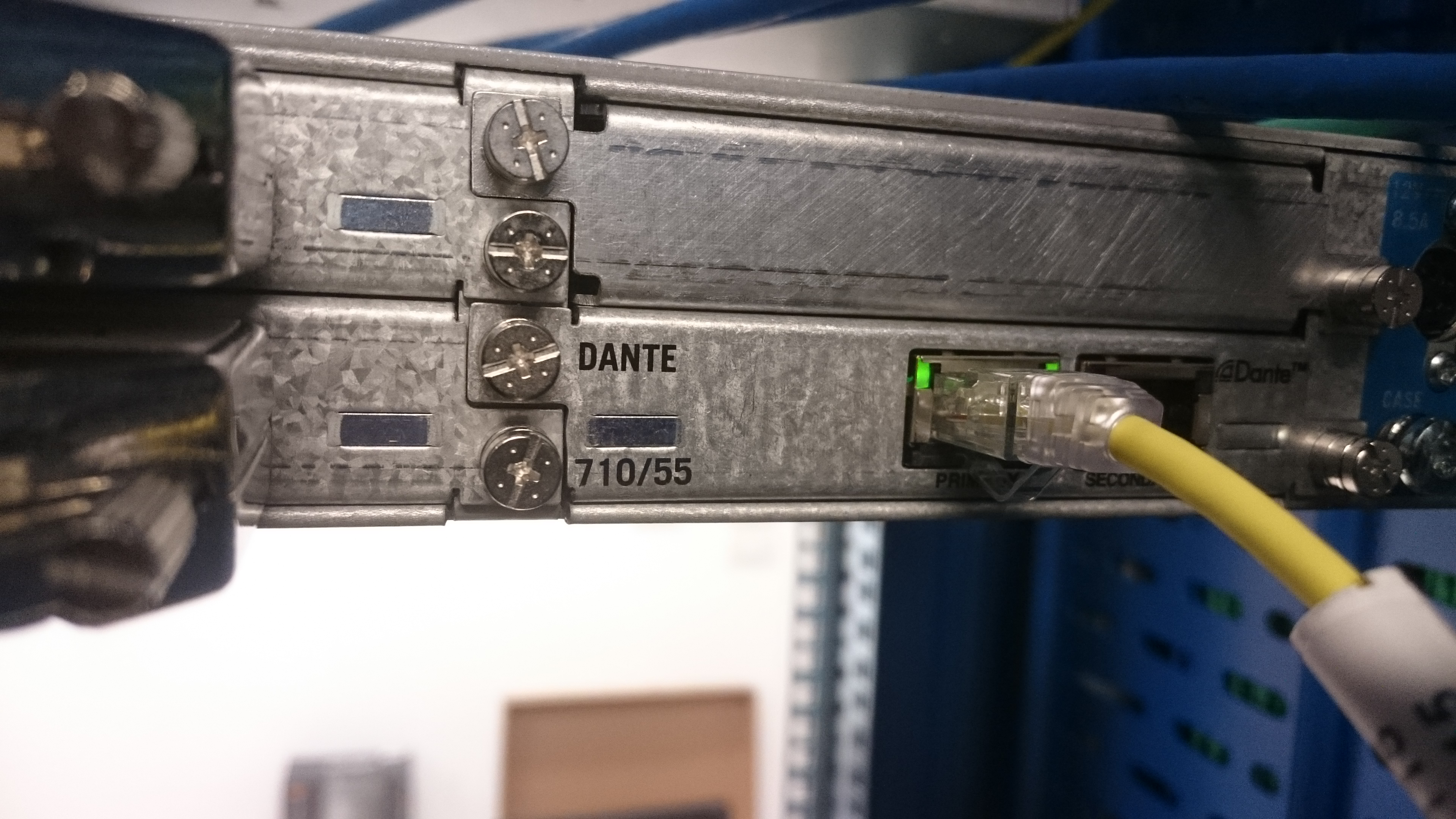 Dante optional Audio over IP interface card for LAWO radio sound mixer.